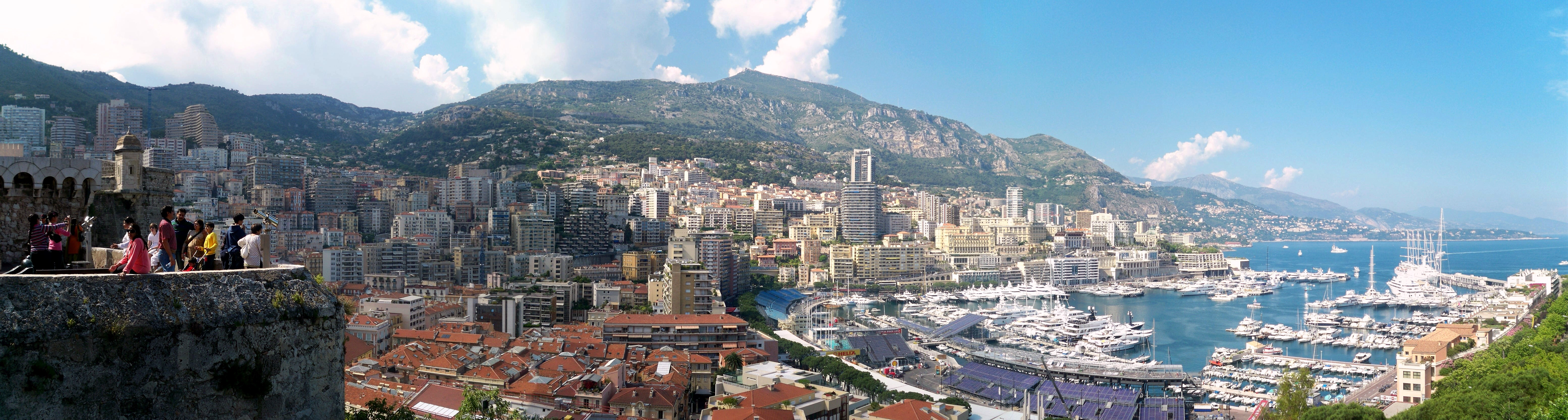 Panorama of La Condamine and Monte Carlo from the lookout near the Prince's Palace of Monaco in Monaco-Ville.